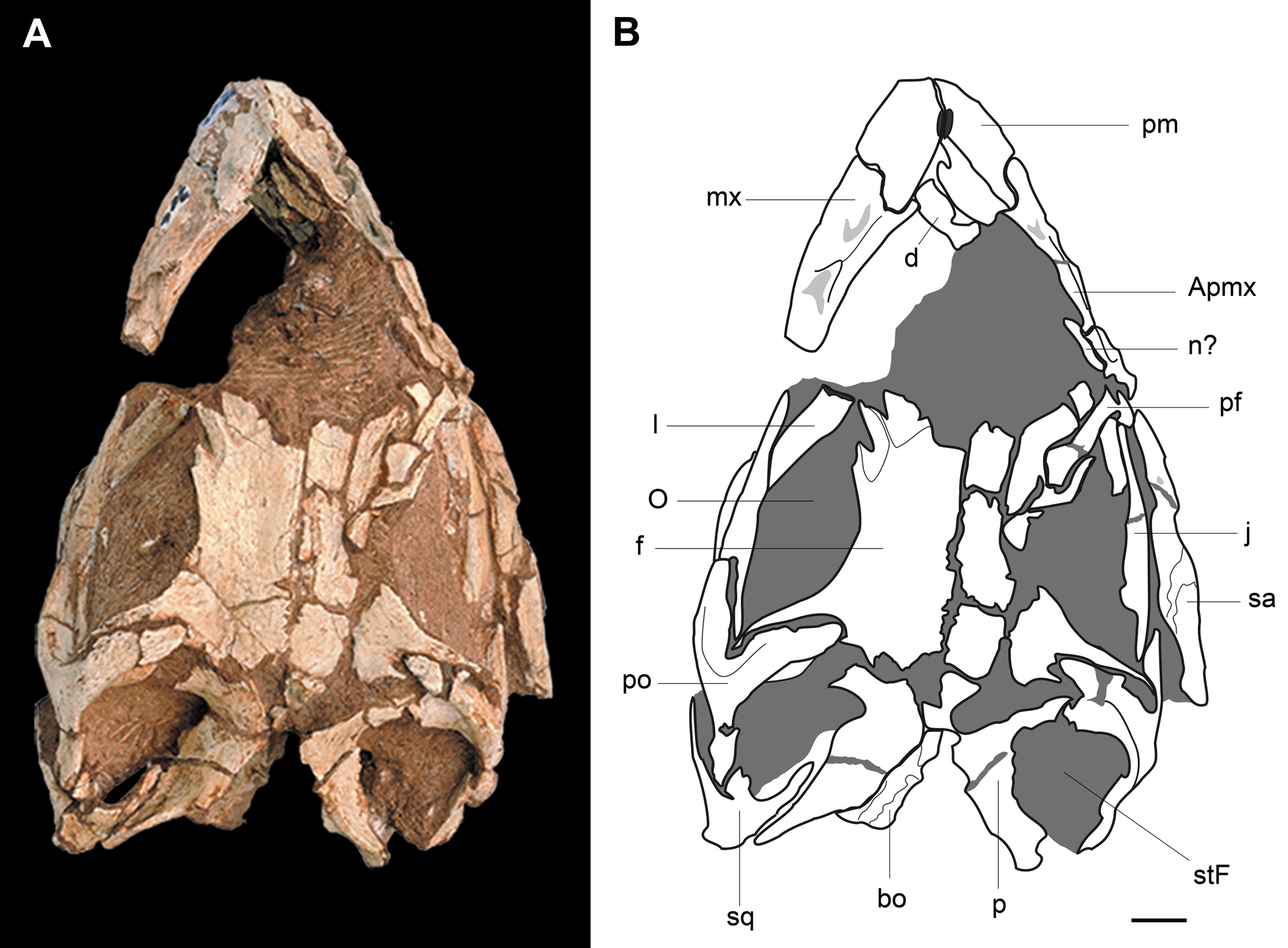 Skull of the new basal sauropodomorph Leyesaurus marayensis (PVSJ 706). Photograph of the skull (A) and interpretative drawing (B) in dorsal view. Dark grey color represents matrix and light grey color represents foramina. Abbreviations: Apmx, ascending process of the maxilla; bo, basioccipital; d, dentary; f, frontal; j, jugal; l, lacrimal; mx, maxilla; n, nasal; O, orbit; p, parietal; pf, prefrontal; pm, premaxilla; po, postorbital; sa, surangular; stF, supratemporal fenestra; sq, squamosal. Scale bar equals 1 cm.